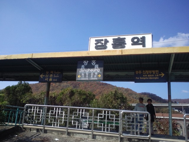 jangheung station